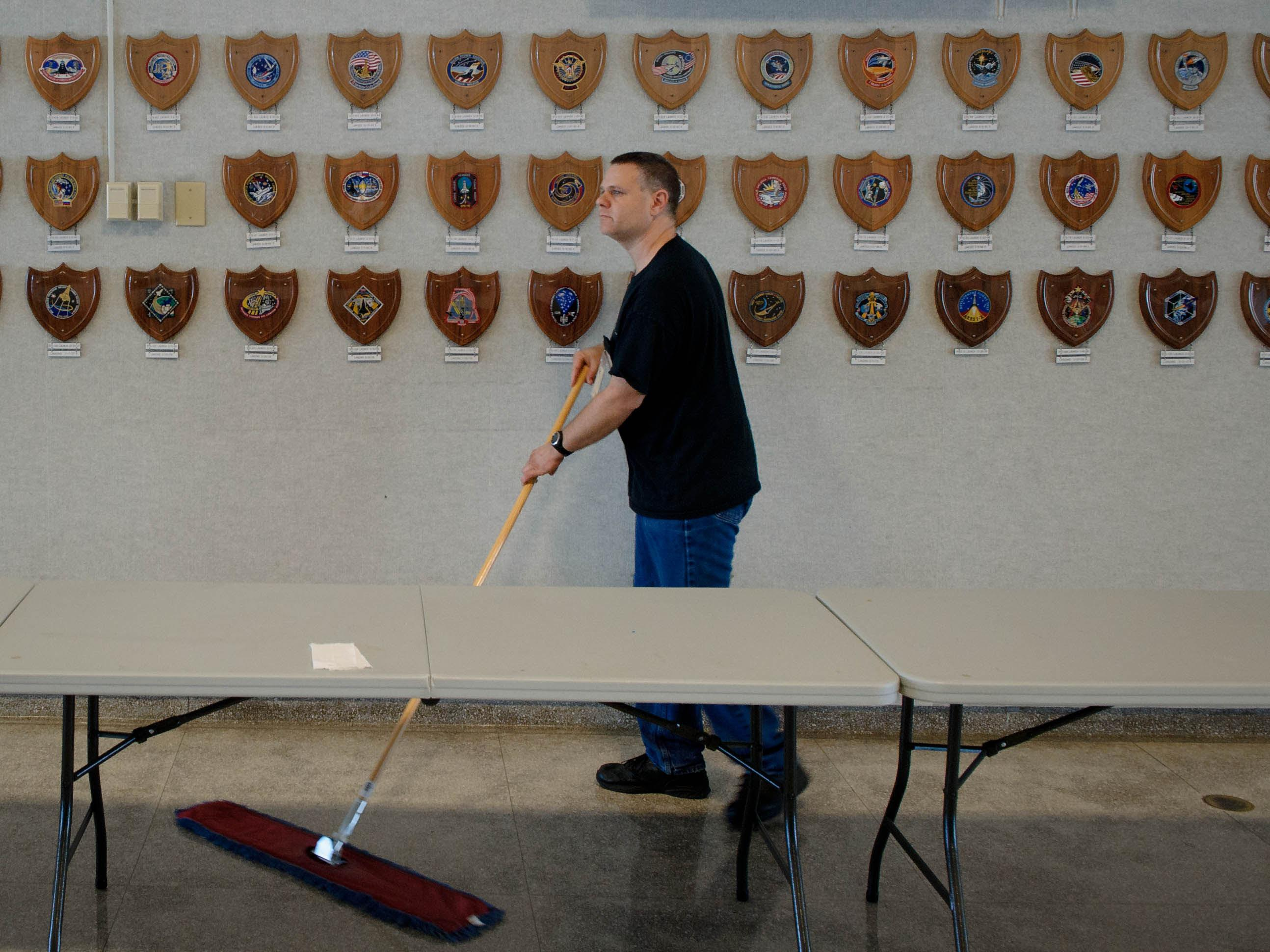 NASA Kennedy Space Center worker Dwayne Hutcheson sweeps the Launch Control Center lobby floor in preparation for the post-launch tradition of corn bread and beans after the successful launch of the space shuttle Atlantis from Launch Pad 39A.